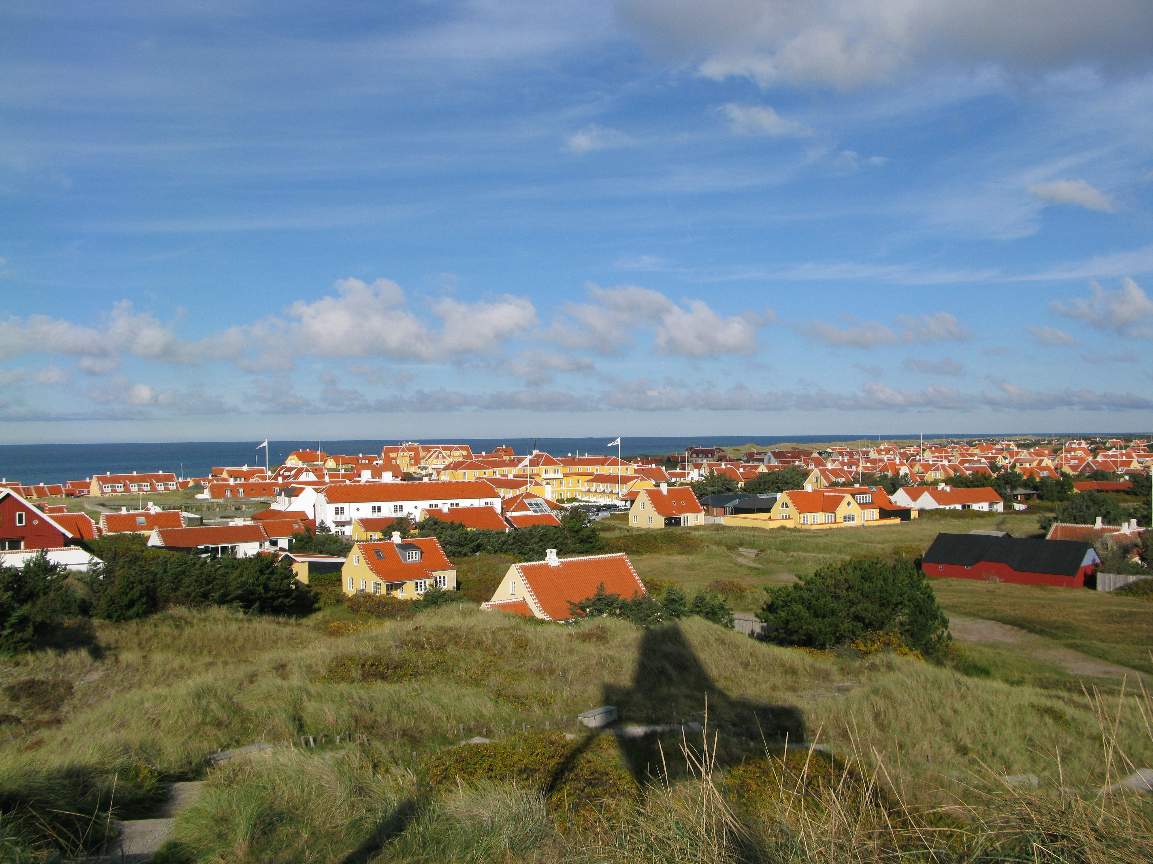 Old Town of Skagen, "Hoejen", Denmark